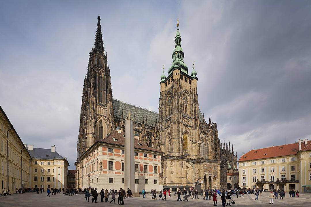 St Vitus Cathedral, 3rd Courtyard of Prague Castel